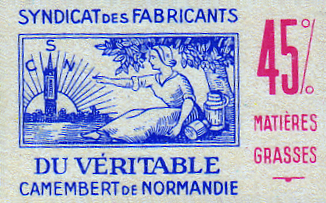 Label of the syndicat des fabricants du véritable camembert de Normandie